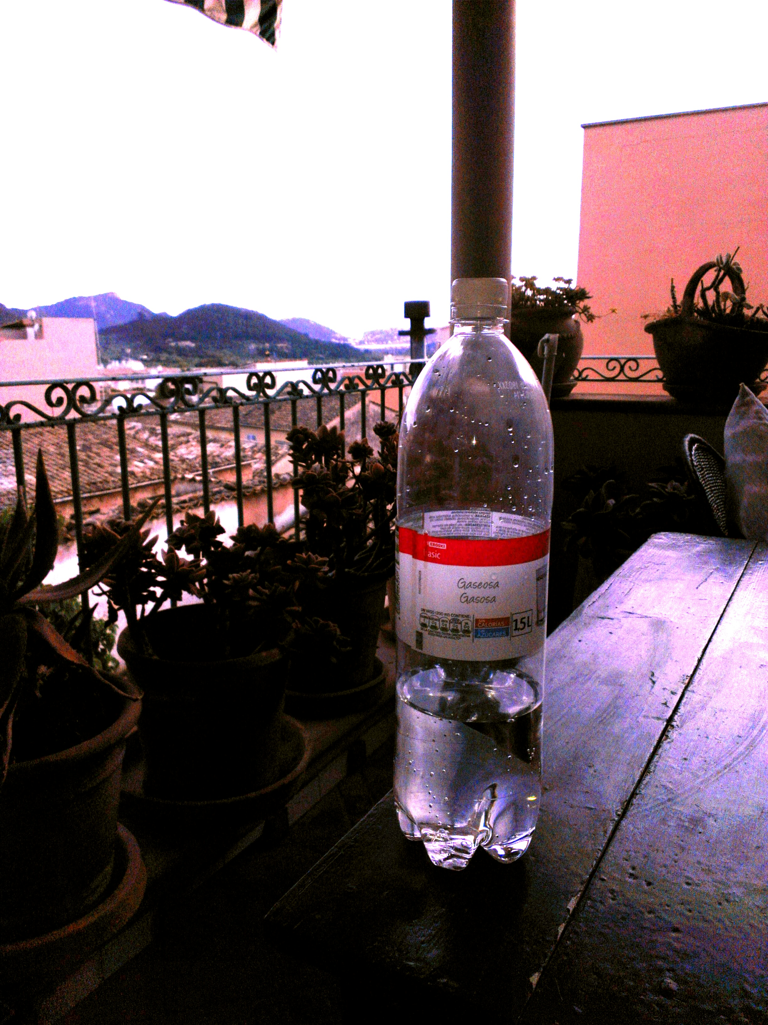 A bottle of Gaseosa